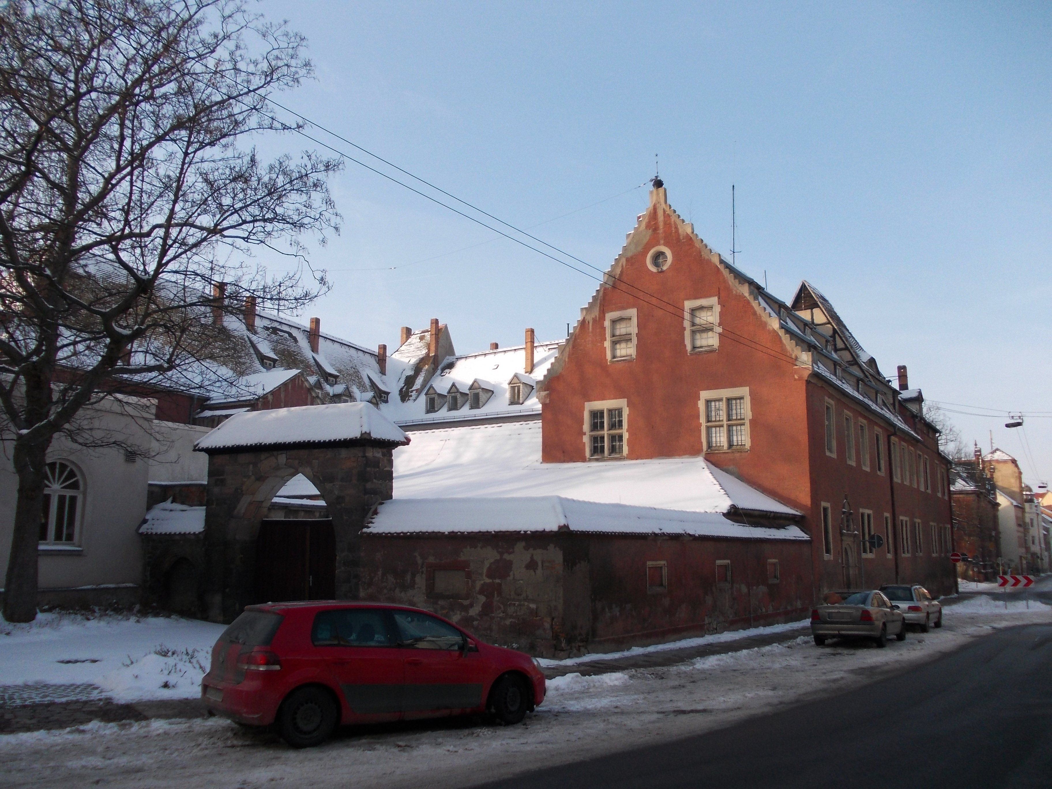 Former St. Clara Convent in Weissenfels (district of Burgenlandkreis, Saxony-Anhalt)